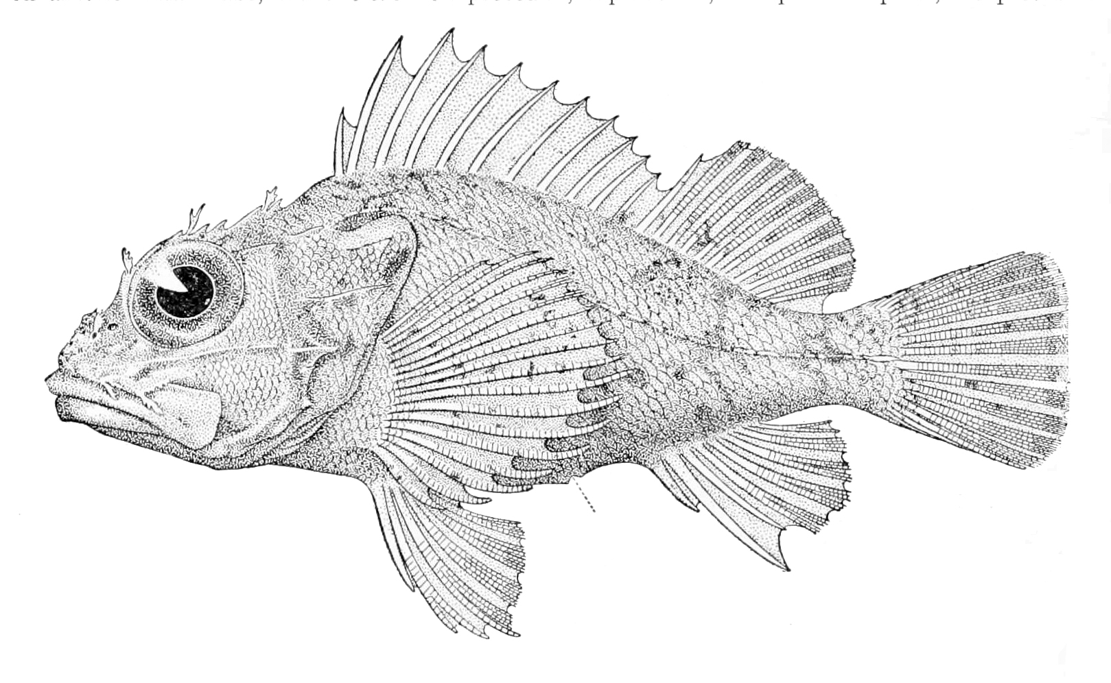 Neomerinthe rufescens